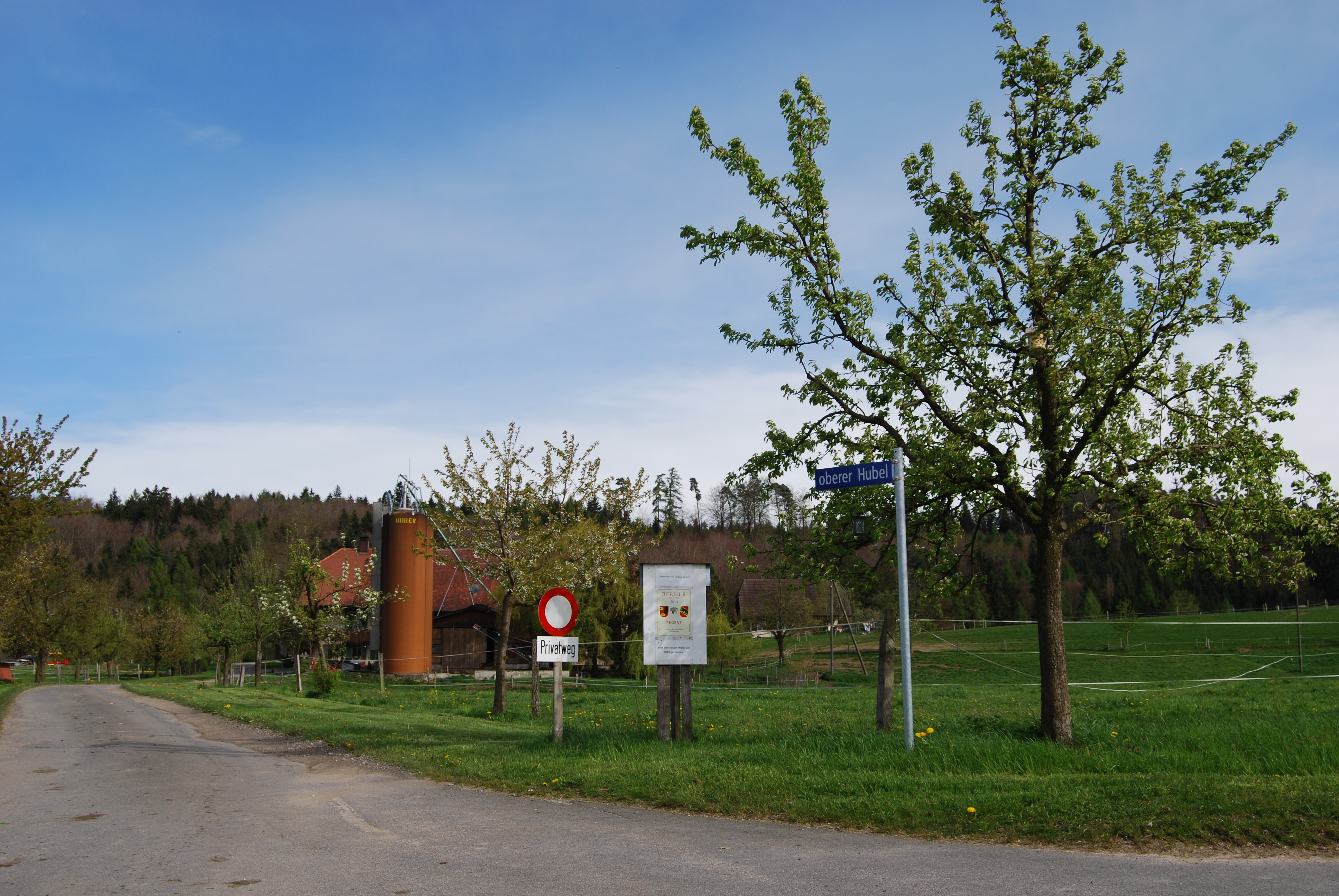 Clavaleyres, canton of Bern, SwitzerlandEsperanto: Clavaleyres, Kantono Berno, Svislando